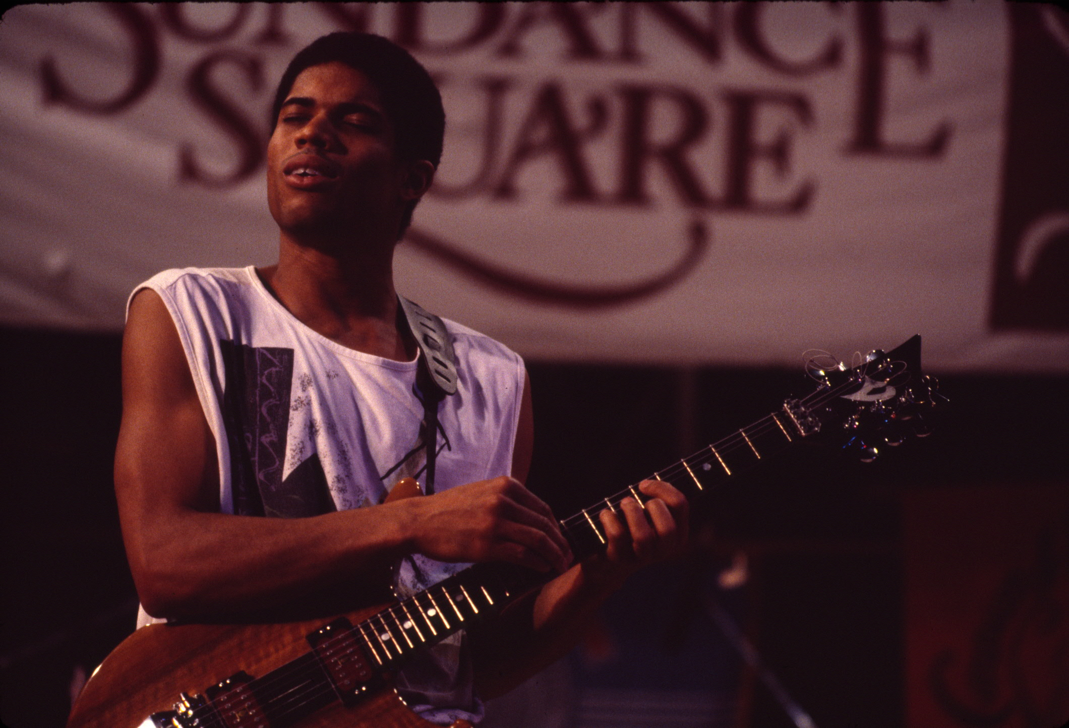 Stanley Jordan performs in Fort Worth, Texas, 1989.